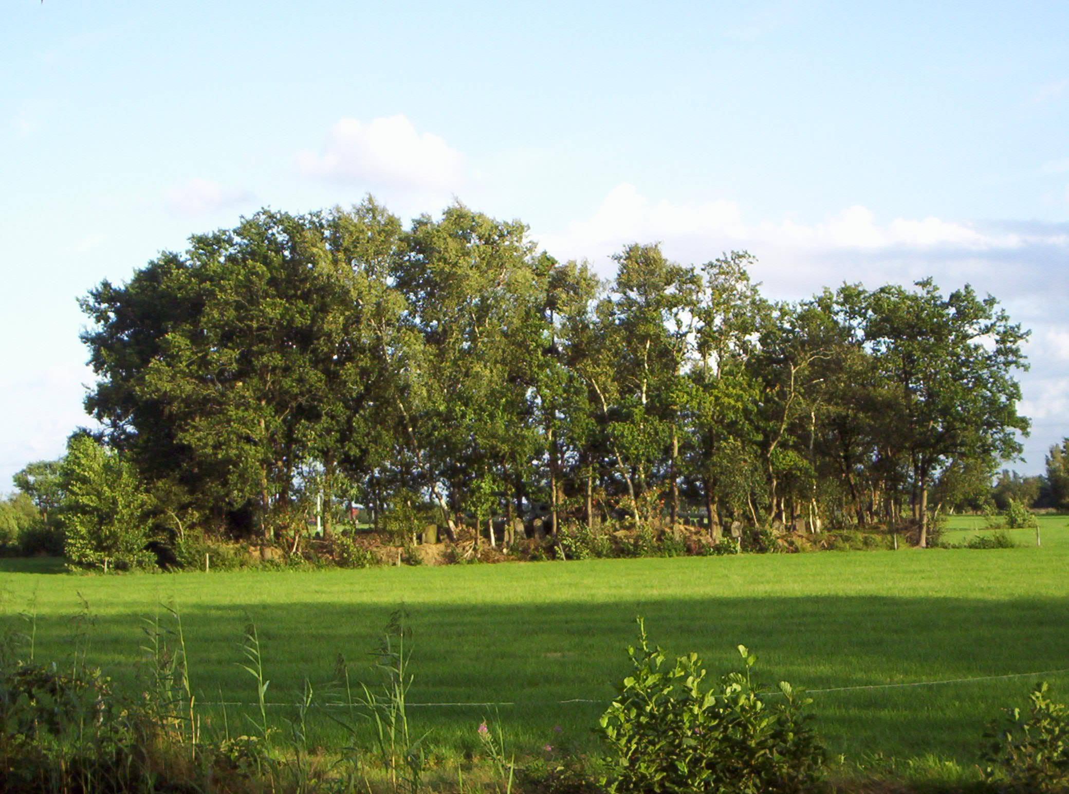 Jewish cemetary Gorredijk (Friesland)